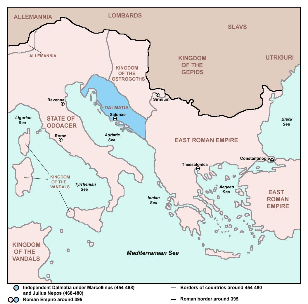 Independent Dalmatia - Extent of Marcellinus' Control (454-468) and Julius Nepos' Control (468-480).Srpskohrvatski / српскохрватски: Nezavisna Dalmacija - Područje pod kontrolom Marcelina (454-468) i Julija Nepota (468-480).